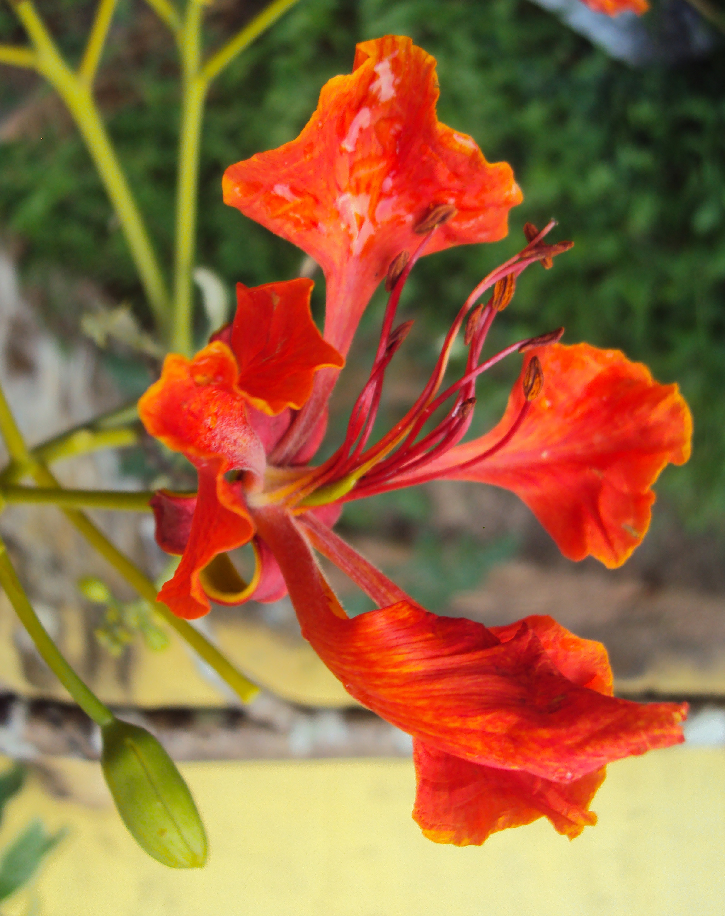 Delonix regia